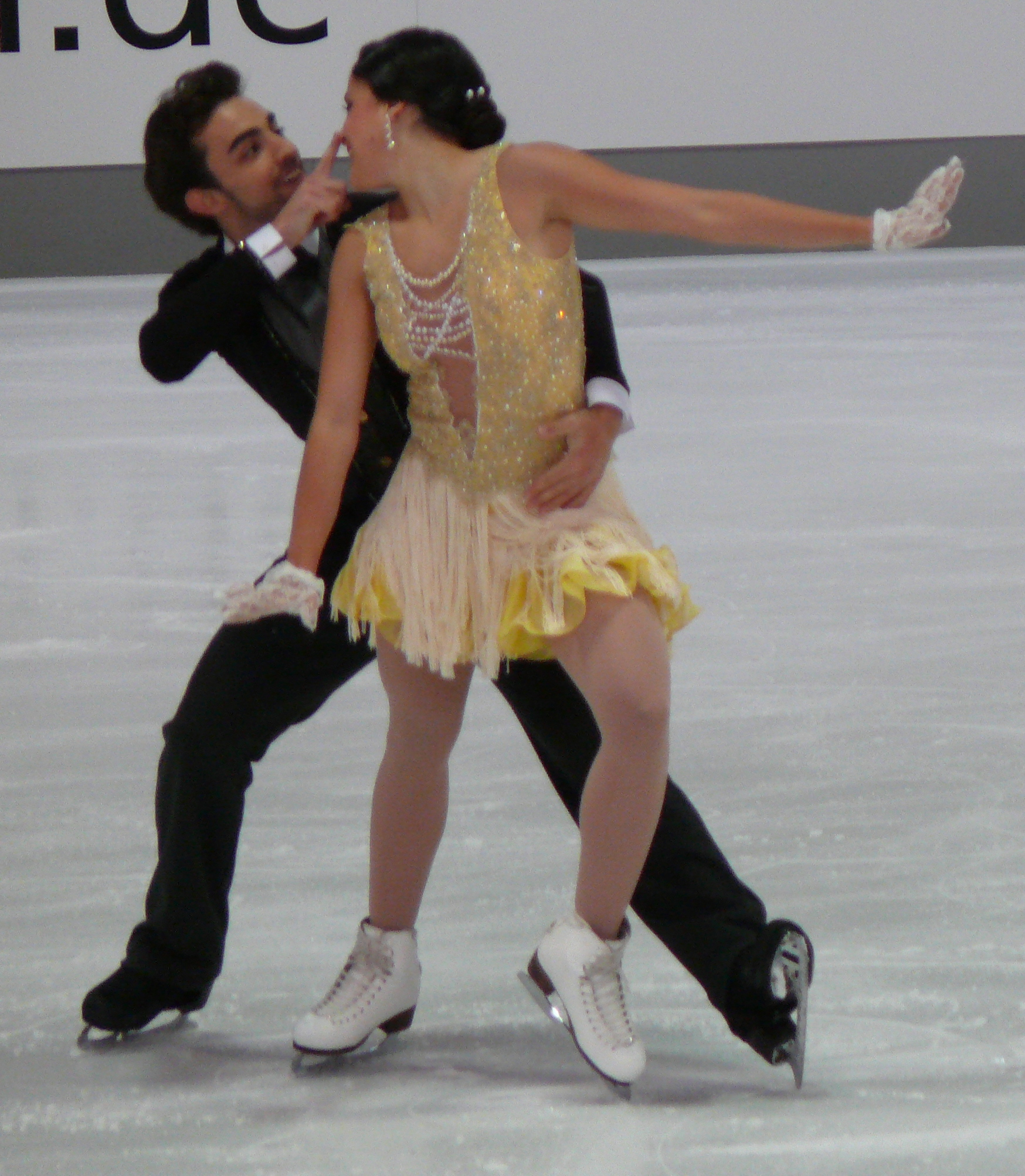 Sara Hurtado and Adria Diaz (ESP) at their short dance at the Nebelhorn Trophy 2012 in Oberstdorf/Germany